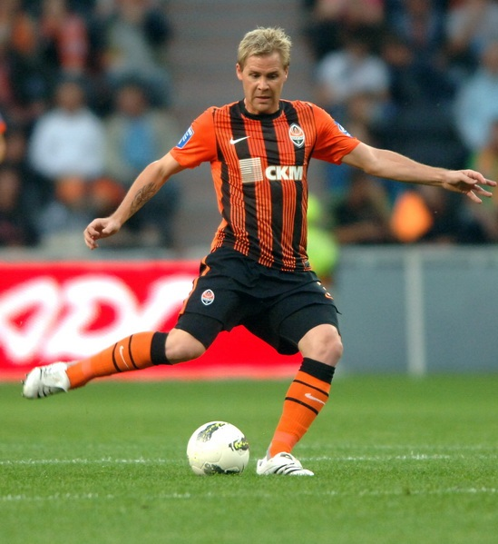 Tomáš Hübschman players of FC Shakhtar Donetsk